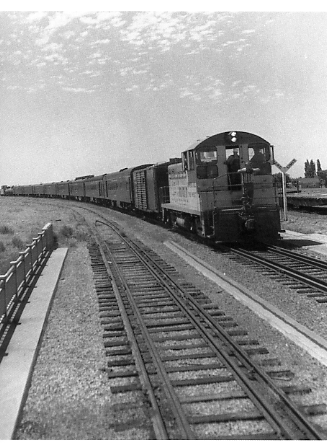 Image of Mobile Minuteman missile train